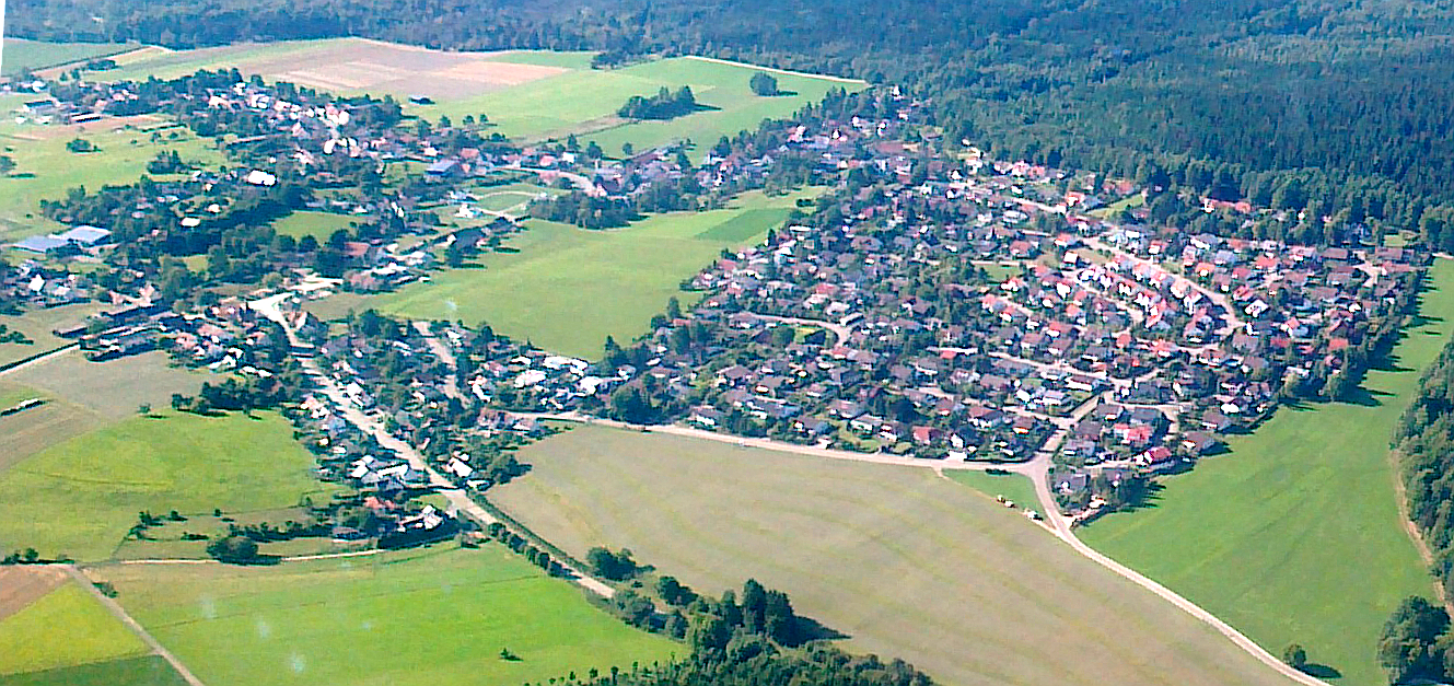 Aerial image of Zang, taken on 2012-08-19